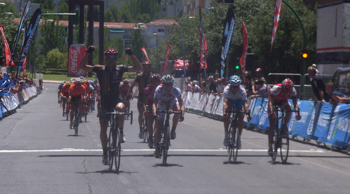 Francisco Jose Ventoso wins the 2nd stage of the 2009 Vuelta a Madrid cycling race in Coslada - Daniel Sánchez